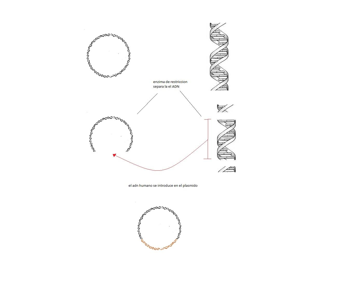 Mecanismo de replicación del plásmido